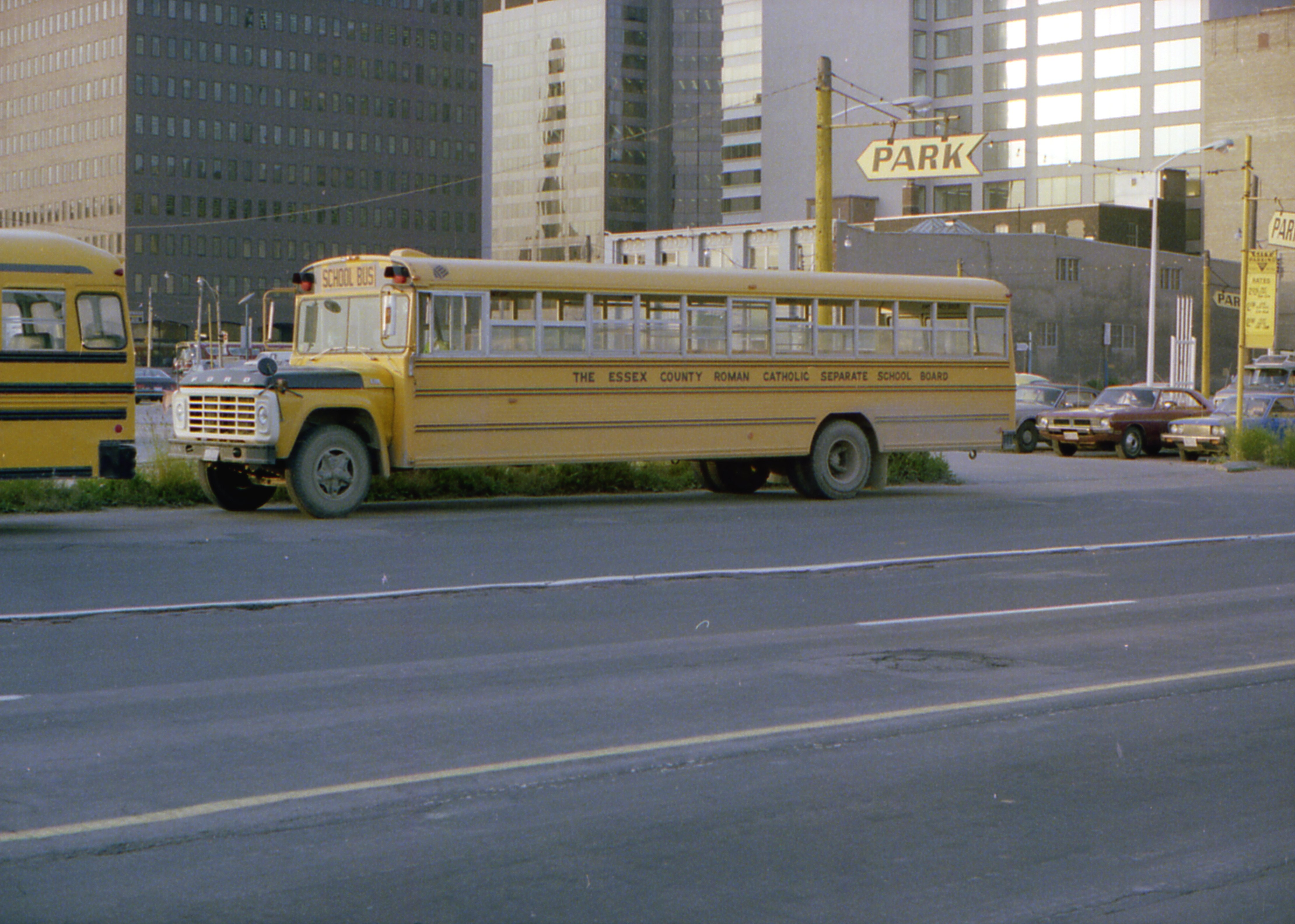 "A quick peek at Toronto on a hectic day in June 1979." The view appears to be from Front Street West, across the former rail lands (which were used for surface parking, and eventually redeveloped), towards the intersection of Simcoe Street and Wellington Street West (the brown building, since reclad, still sits on the northeast corner of Wellington and Simcoe). The school bus, belonging to the Essex County Roman Catholic Separate School Board, has a 72-passenger Wayne Lifeguard body on a 1973-1979 Ford B700 chassis. Camera: Olympus Pen F Half Frame SLR.